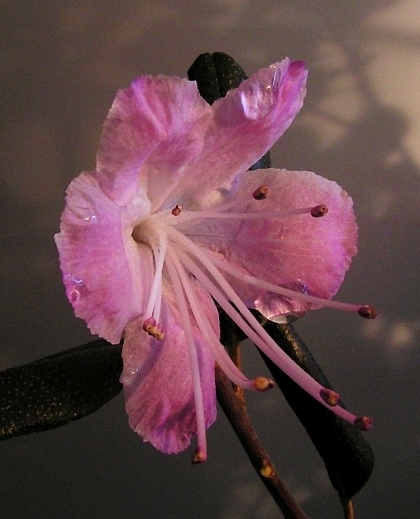 The flower of Rhododendron ledebourii